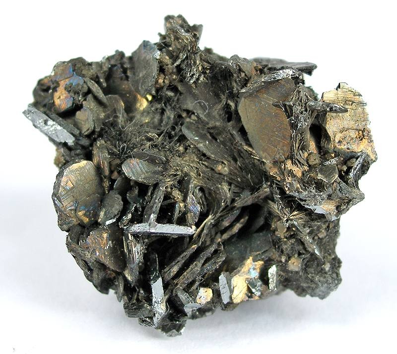 Plagionite Locality: San José Mine, Oruro City, Cercado Province, Oruro Department, Bolivia (Locality at ) Size: 3.3 x 3.0 x 1.7 cm. Plagionite is a rare lead-antimony-sulfide. This incredibly rich specimen is relatively large and of high quality for this famous old find....probably dating back over 50 years to the Mark Bandy era in Bolivia. It features sharp metallic crystals to 9mm in size, in an interconnected cluster. For crystal size, and robustness, and overall richness of the piece, this is one of the better surviving examples, I think we could say. Ex. Lawrence Conklin Collection.